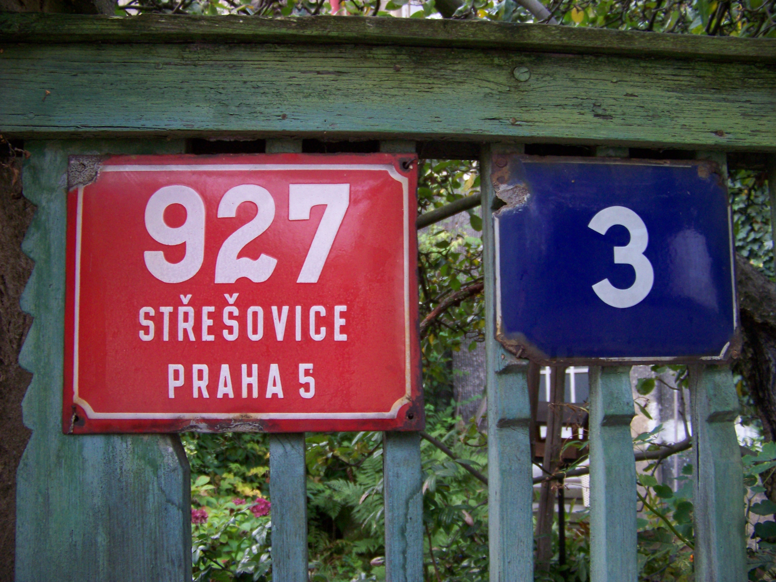 Prague-Střešovice, the Czech Republic. Ořechovka, Pod Ořechovkou 927/3, house numbers.